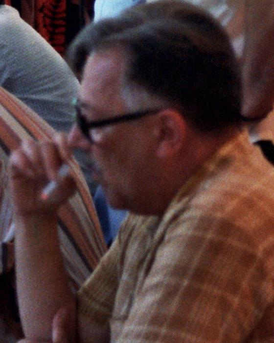 Dragoljub Janoševic, 1982 at the International Chess Tournament in Linz (Austria), Photographer Gerhard Hund.